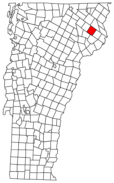 Description: Map of Vermont towns with East Haven highlighted Source: Map created by Jared C. Benedict on 26 March 2004. Copyright: © Jared C. Benedict.